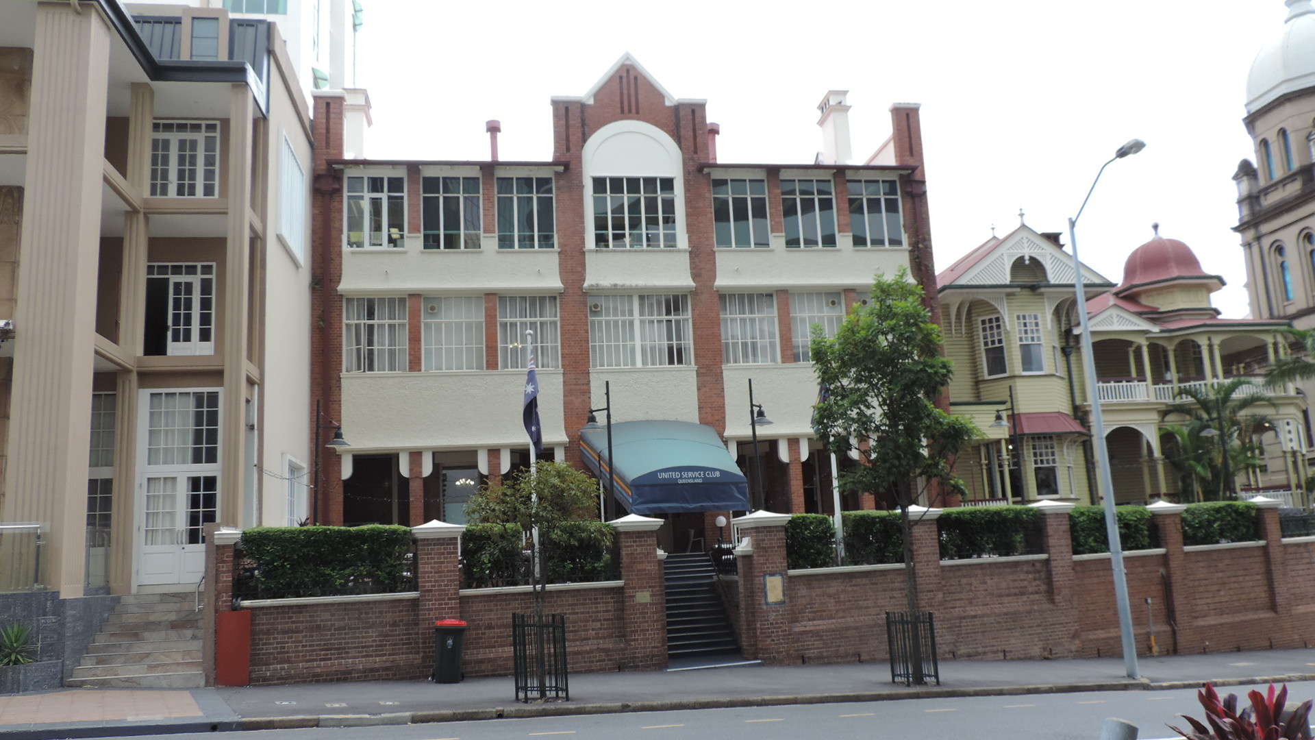 Montpelier House, United Service Club Premises, Wickham Terrace, Spring Hill, Brisbane, 2015